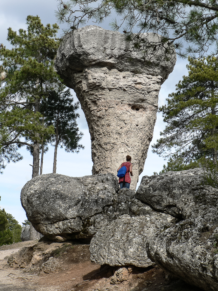 09042009 170048 CEC 0112 This is a photography of a Special Area of Conservation in Spain with the ID: ES4230014. Natura2000 entry, EEA entry